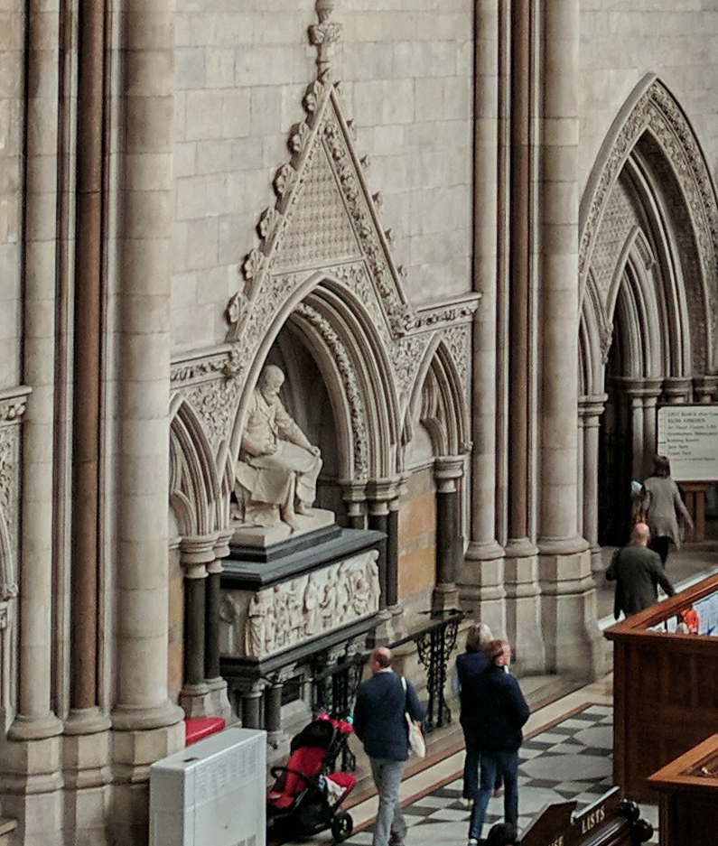 Monument to architect George Edmund Street (1824 – 1881) by Henry Hugh Armstead, unveiled in the main hall of the Royal Courts of Justice in 1886 (detail of image by User:The wub).